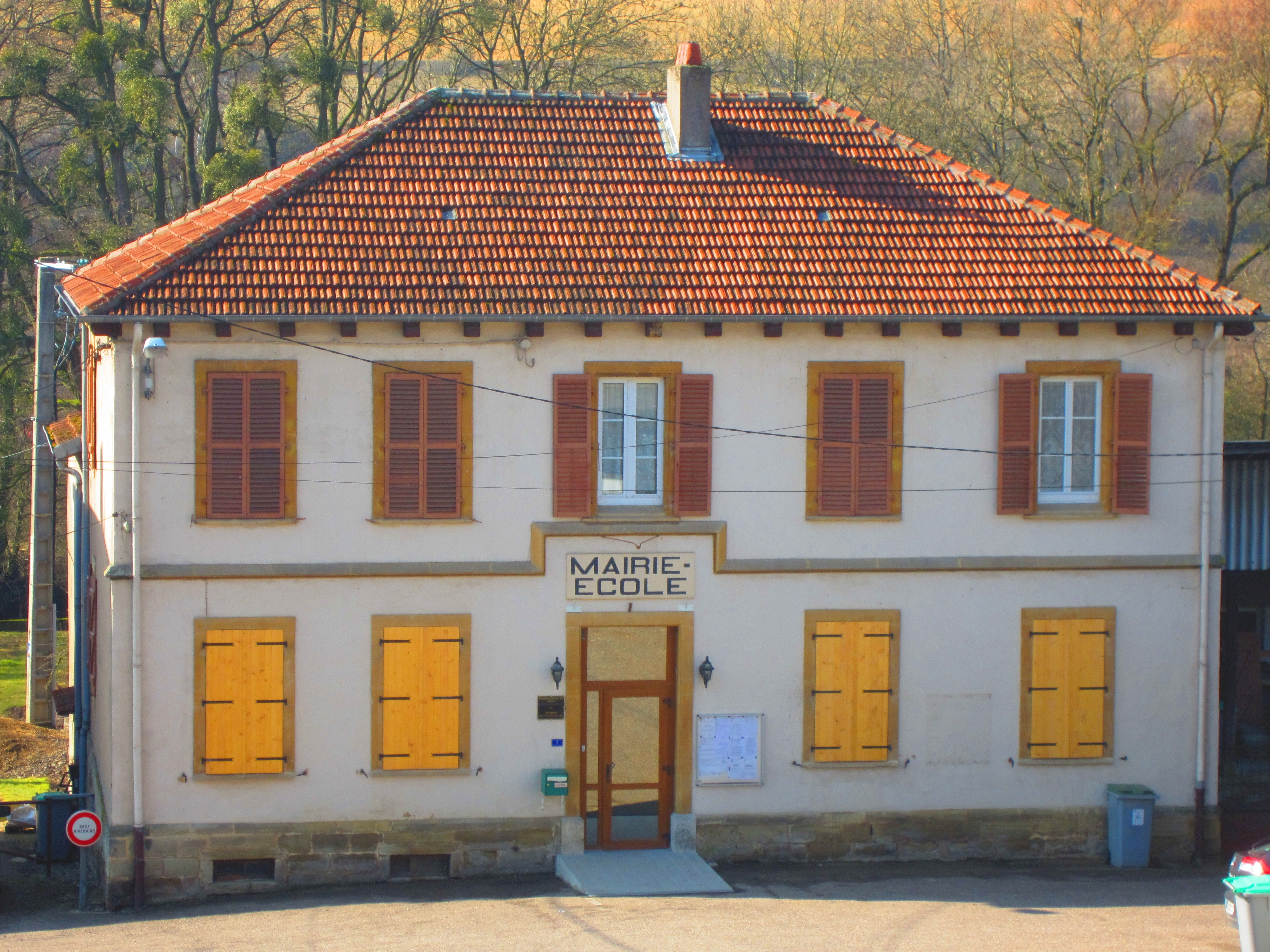 Bionville Nied town council